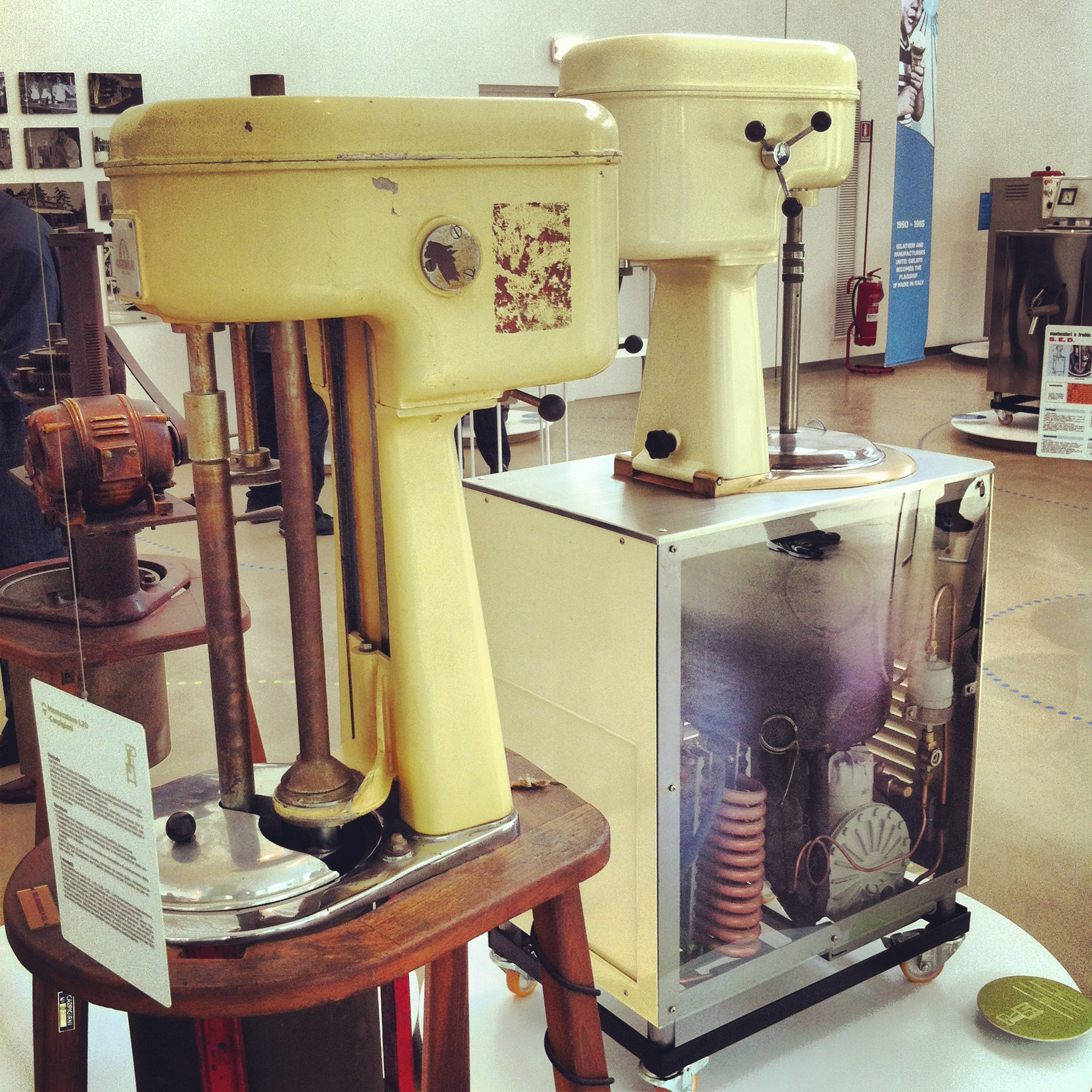 Ice-cream machines (1946 & 1960) on display at the Gelato Museum Carpigiani - Italy